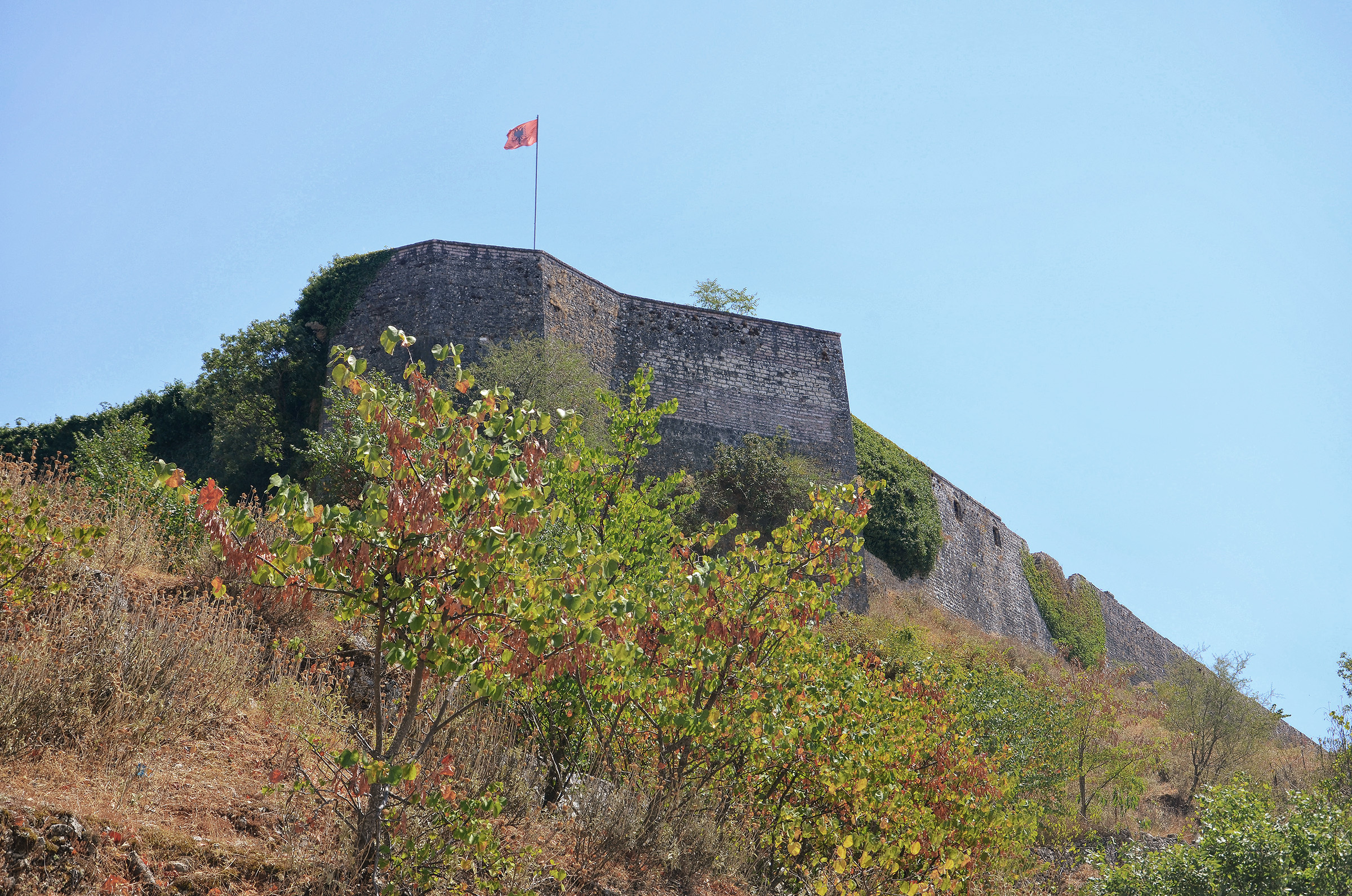 The Libohova Castle in Albania